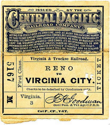 Ticket for First Class passage on the Virginia & Truckee Railroad between the Central Pacific Railroad main line at Reno and Virginia City, NV issued by the CPRR General Ticket Office (“M”) at San Francisco, CA. The Cooper Collection of US Railroad History (uploader's collection)